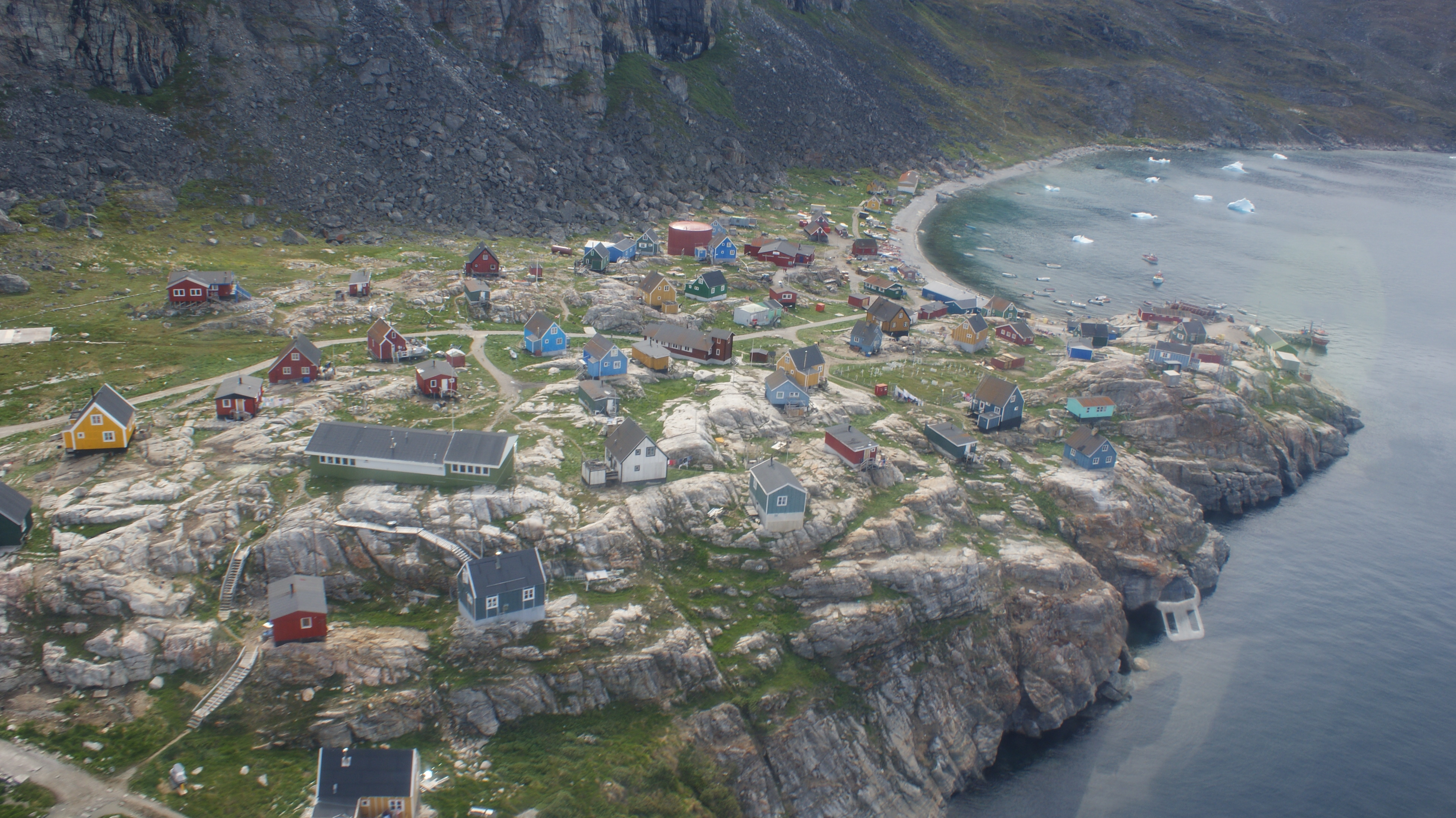 Aerial view of Ukkusissat, Greenland. Photographed from Air Greenland Bell 212 helicopter during the flight from Uummannaq